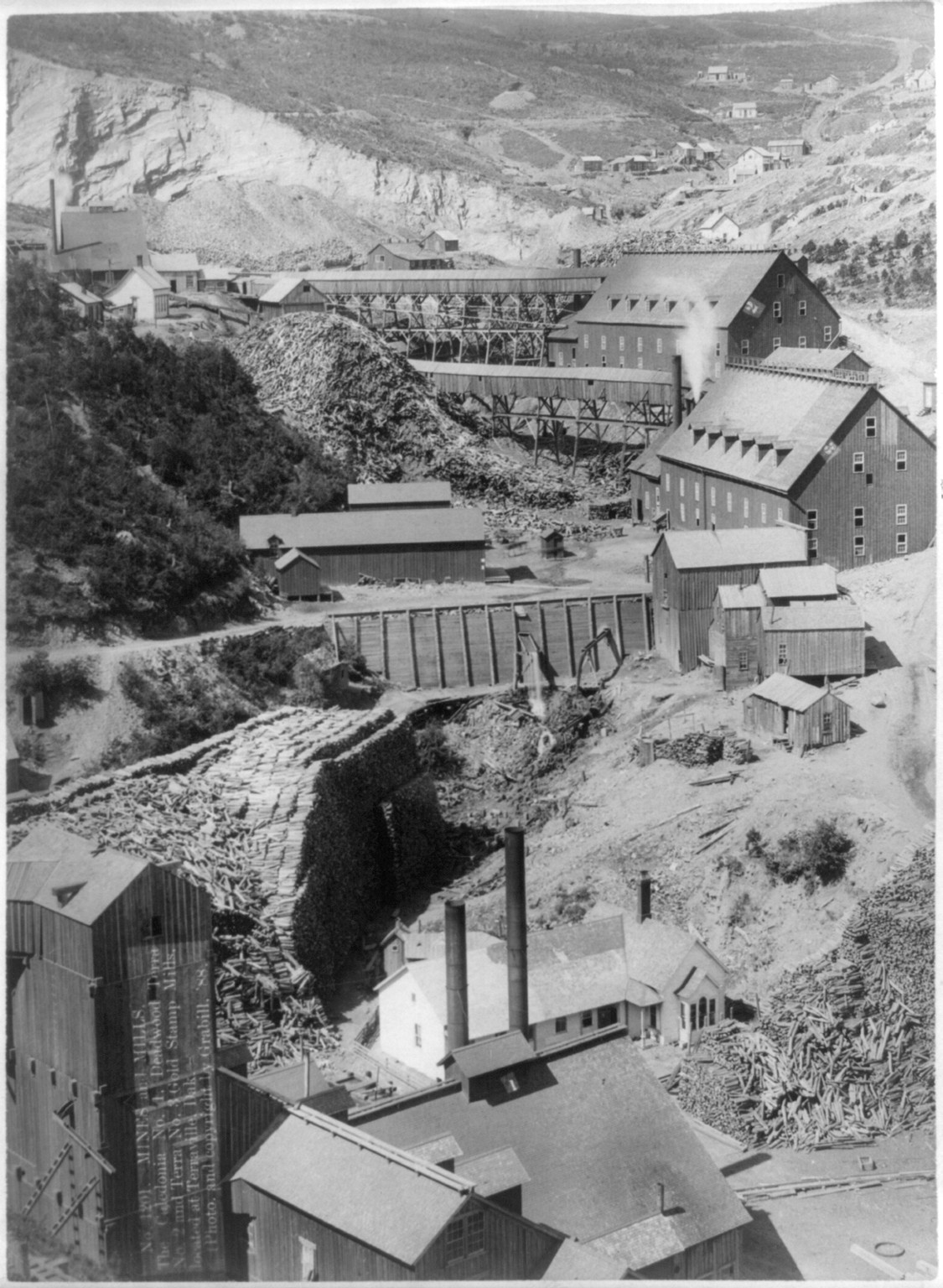 Mines and Mills. The Caledonia No. 1, Deadwood Terra No. 2, and Terra No. 3. Gold Stamp Mills, located at Terraville, Dak.